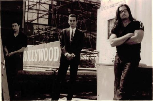 Spahn Ranch promo photo 1998